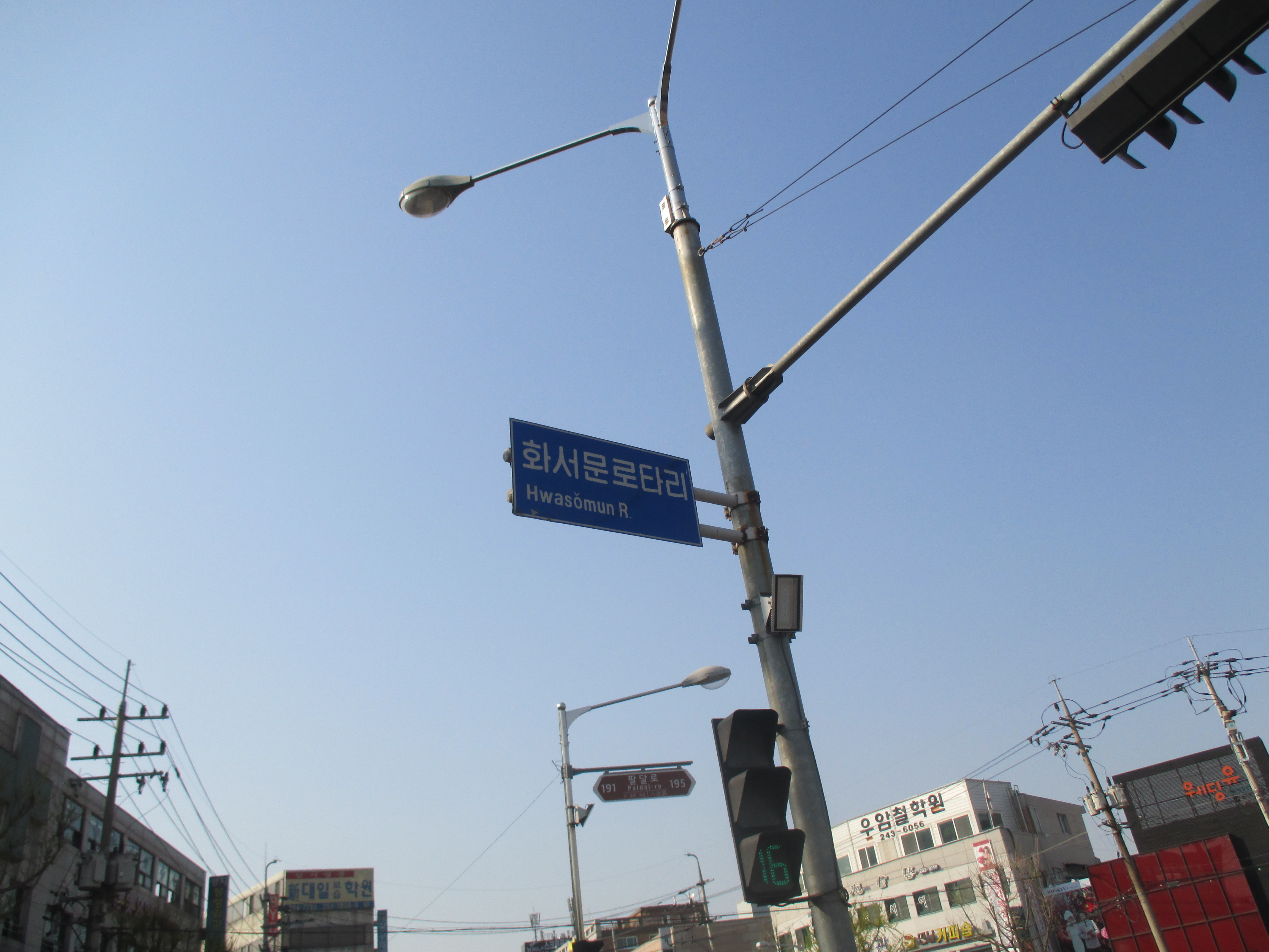 A plate in Suwon (South Korea) with McCune-Reischauer Romanisation being used